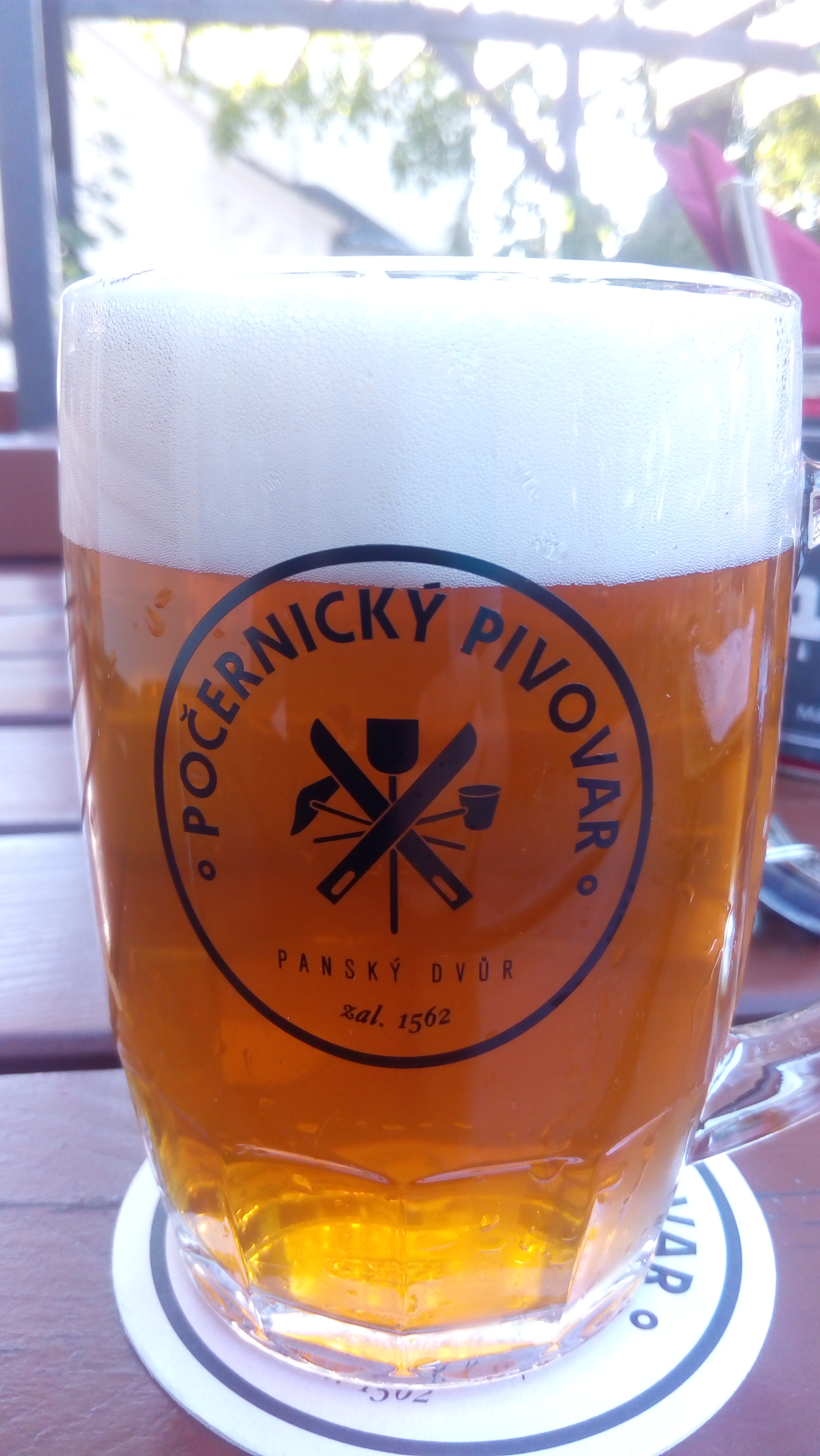 Počernická 12°, served in Počernický pivovar in Dolní Počernice.